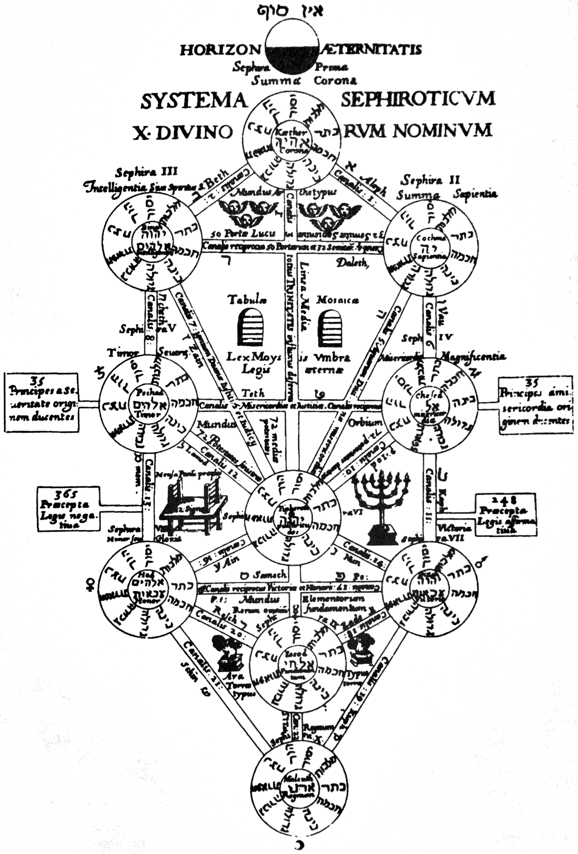 The Tree of Life, an engraving by Athanasius Kircher, published in his Œdipus Ægyptiacus in 1652. The basic structure of sephirot and links has since become the most common variant of the Tree used in Hermetic Qabalah. The details in this illustration include the Law of Moses, the 248 positive commandments and 365 negative commandments of Maimonides (associated with the principles of misericordia and severitas respectively), etc.